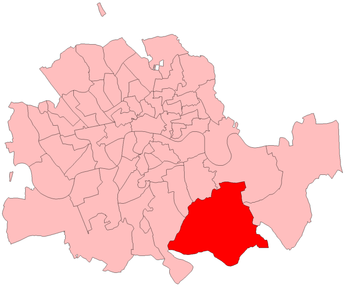 A map of Lewisham constituency within the Metropolitan Board of Works area, as it existed from 1885 to 1918.